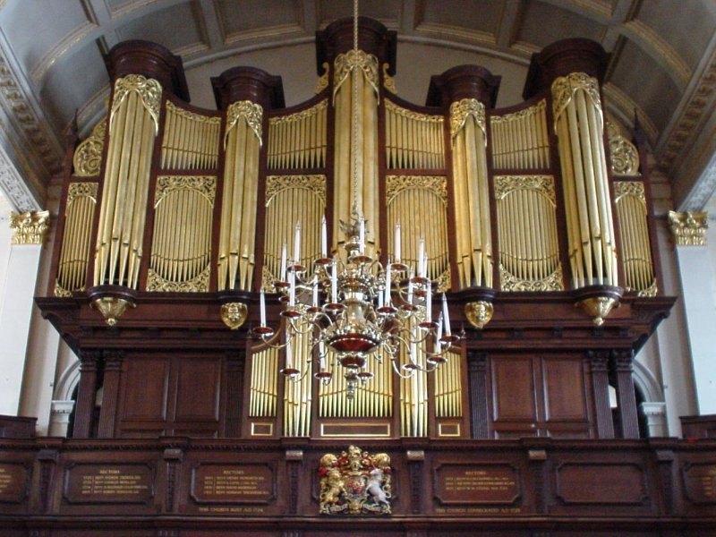 St Georges Church Organ, Hanover Square, London